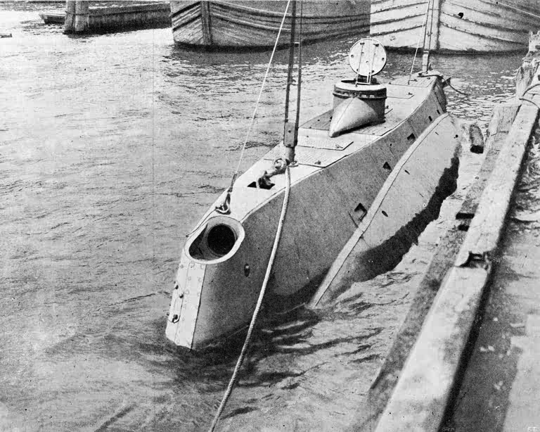 USS Holland (SS-1) - the first submarine of the U.S. Navy. The muzzle door of the bow dynamite gun is open. Removed caption read: SUBMARINE TORPEDO BOAT "HOLLAND." Displacement, 75 tons. Length, 55ft. Diameter, 10 1/4 ft. Armament: One Whitehead discharge tube, one aerial dynamite gun, one under-water dynamite gun.